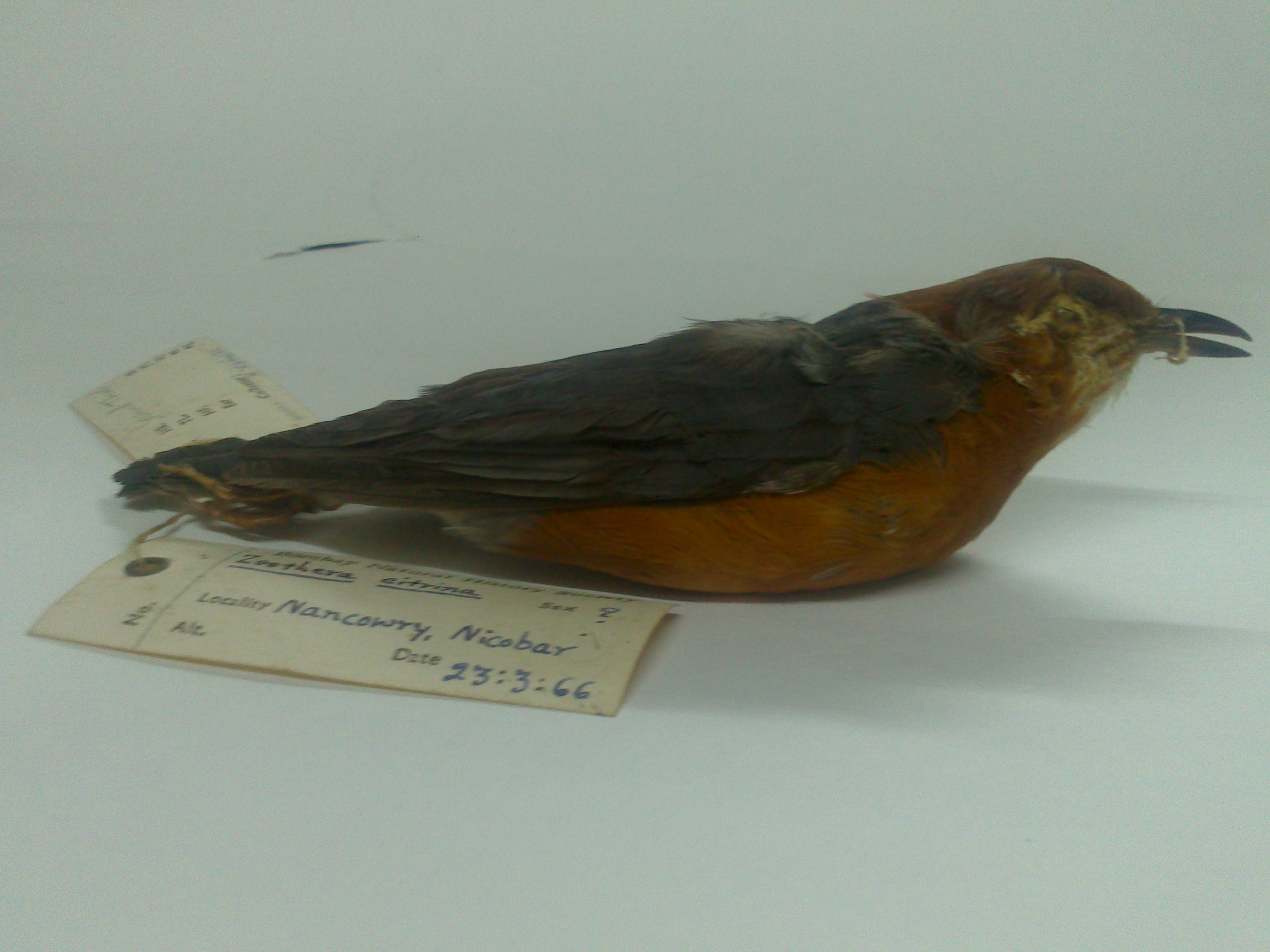 A specimen of Zoothera citrina, or Orange headed Thrush, collected by naturalist Humayun Abdulali at Nancowry, Nicobar Island, India, in 1966.